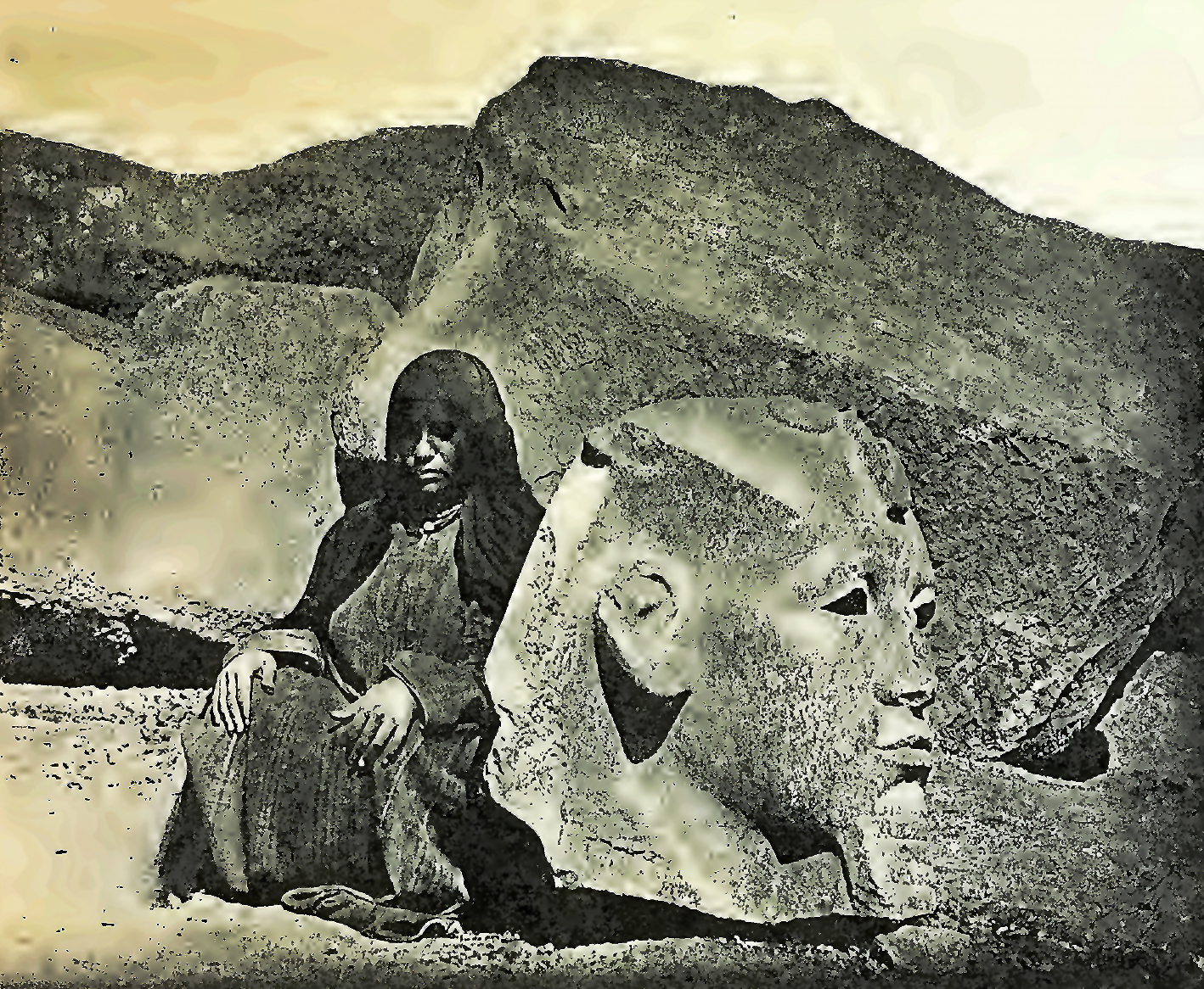 Head of a colossal statue of Amenemhat III near a native woman, found in Tell Basta (Bubastis) by Édouard Naville in 1887-1889. It is part of two seated colossi which were placed at the entrance of the Temple of Bubastis; due to their unusual facial traits, Naville hastly called these colossi "Hyksos statues". This statue was repeatedly usurped by later kings such as Osorkon II. Granite, from Bubastis, reign of Amenemhat III, 12th Dynasty, Middle Kingdom. Now in the British Museum, EA 1063.